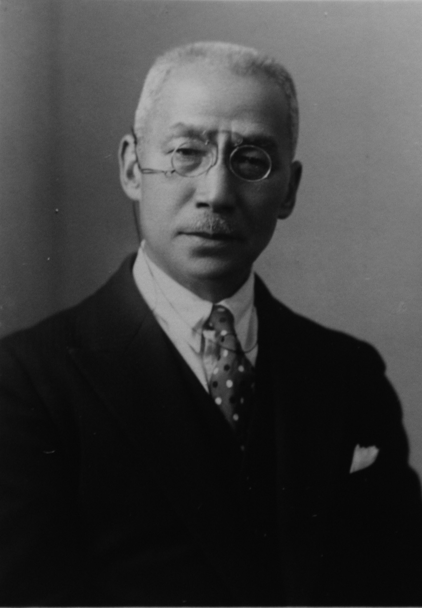 Horiguchi Kumaichi